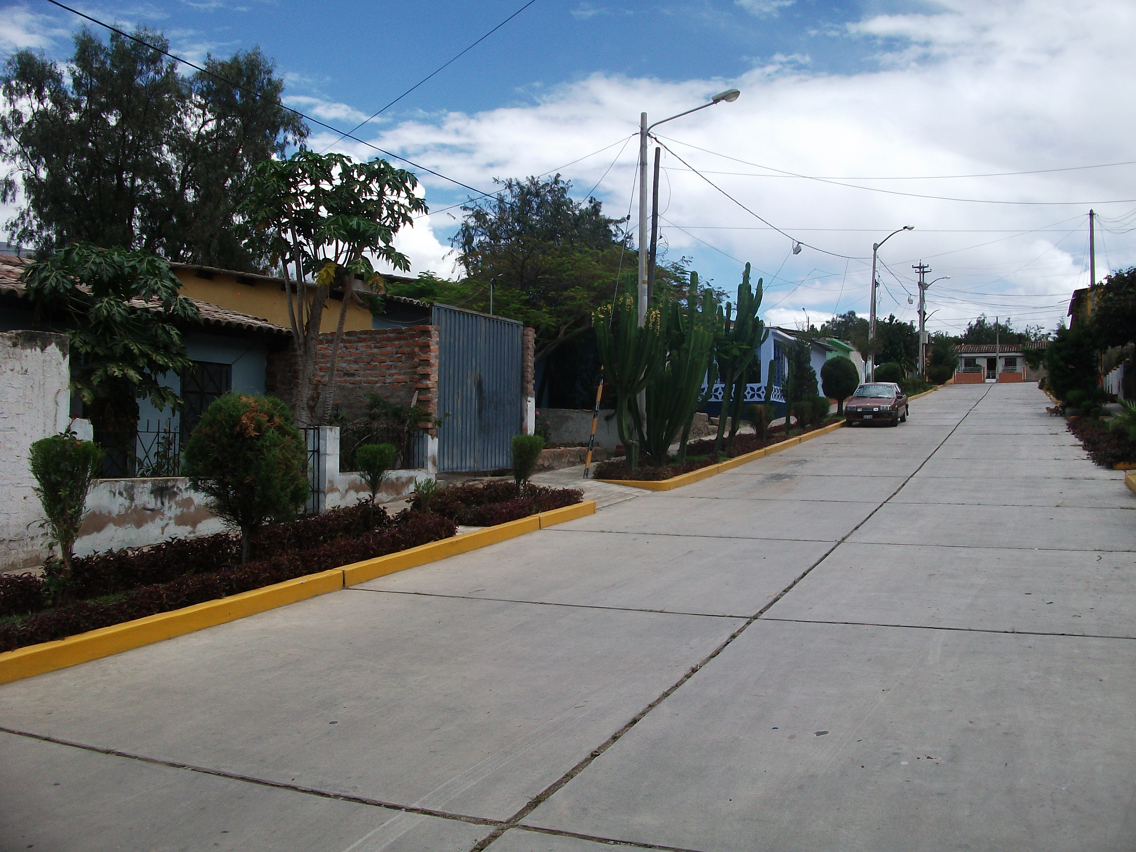 San Francisco Street in Caraz